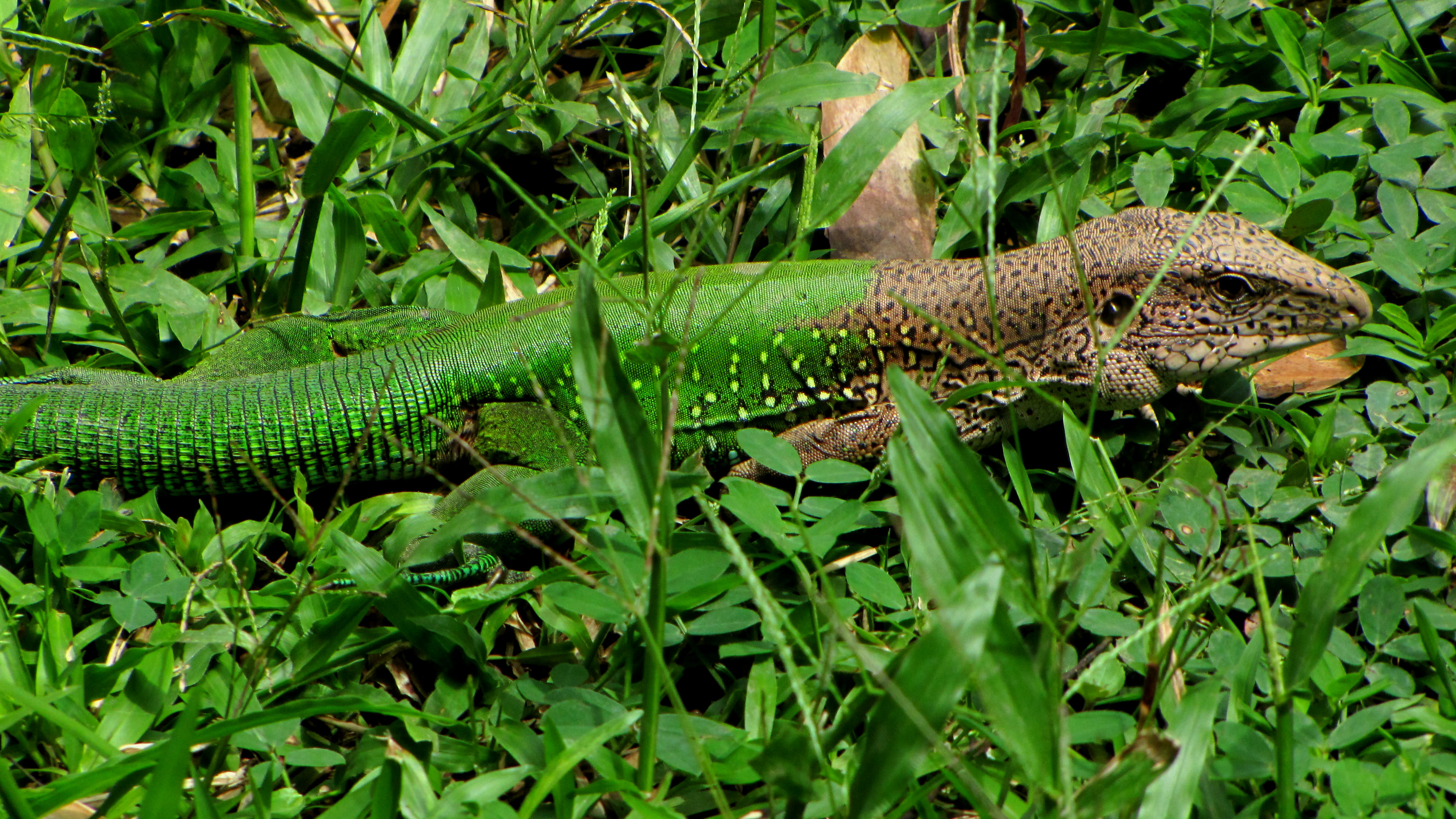 Giant Ameiva (Ameiva ameiva), adult, Tambopata Park, Peru